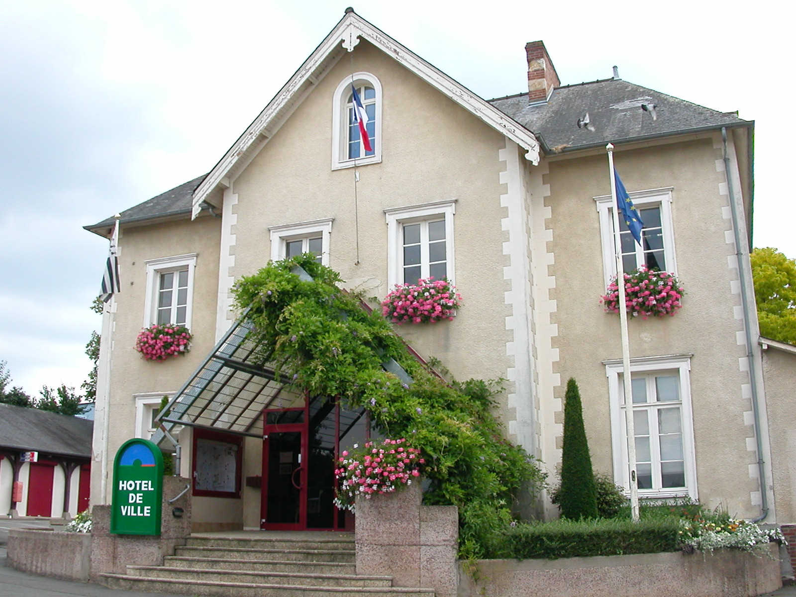 Town hall of Pacé, Ille-et-Vilaine